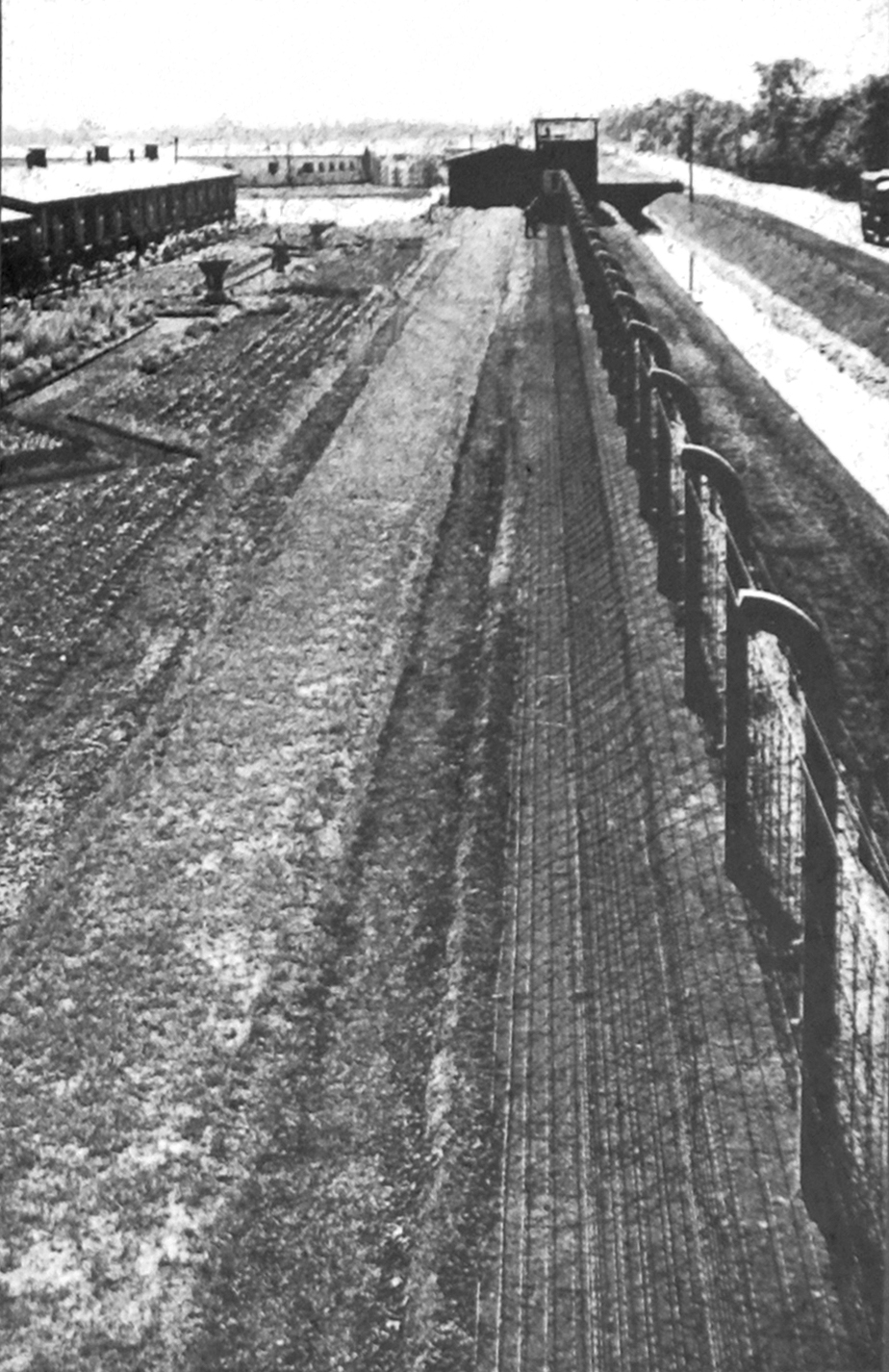 Hamburg (Neuengamme), Germany: Information plaque over the two poles from the former camp at the bank of the river Dove Elbe